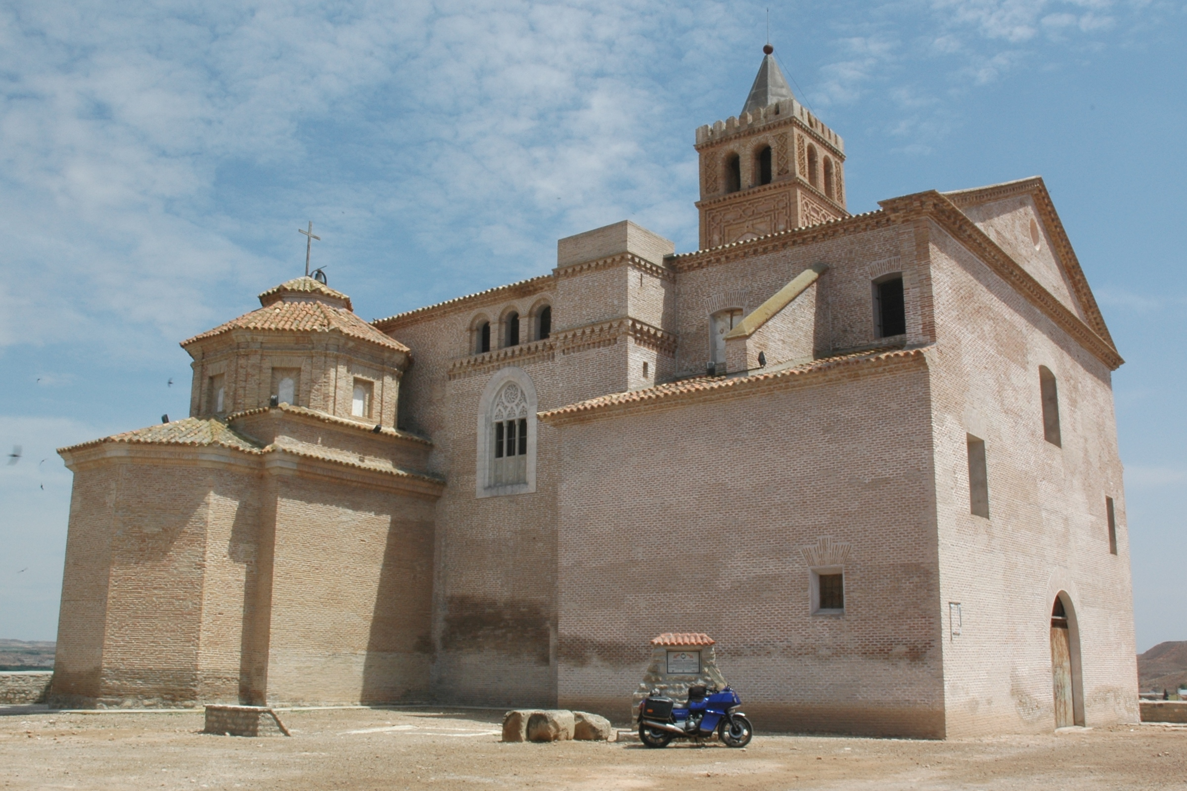 Church of Our Lady of the Ascension, Quinto, Aragón Province, Spain